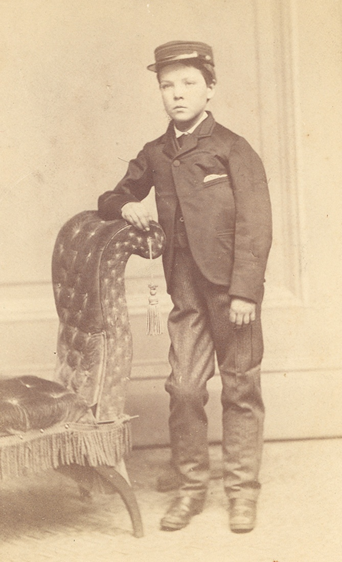 Master John Hindley. An English boy, being the only child saved from the wreck of the Steamship Atlantic, which sunk off Lower Prospect, Halifax County, Nova Scotia, Canada on the 1st of April, 1873.